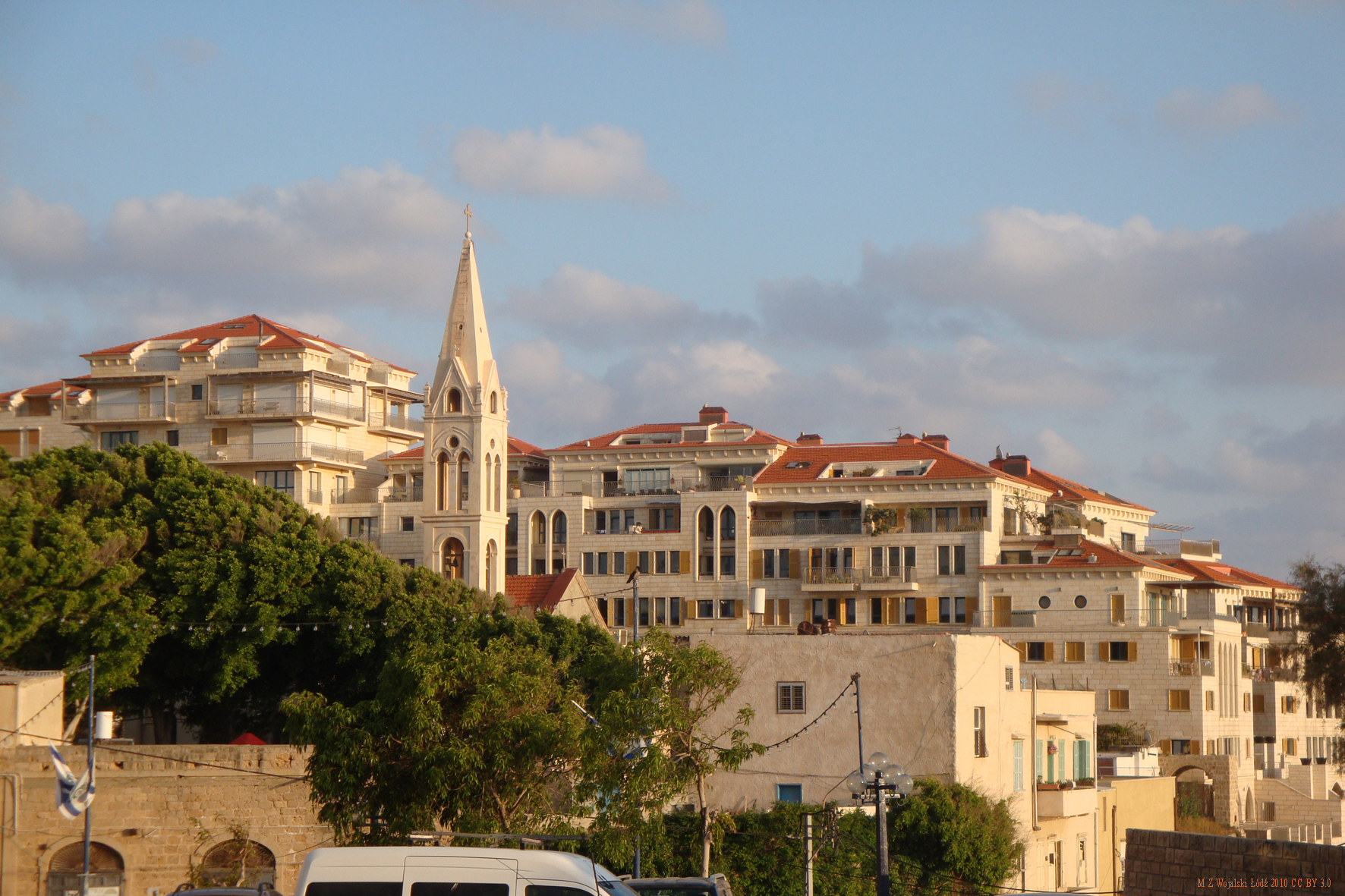 Panorama of Jaffa by Tel Aviv-Yafo 2010 with Saint George Church (view from Kedumim square looking towards south-East)